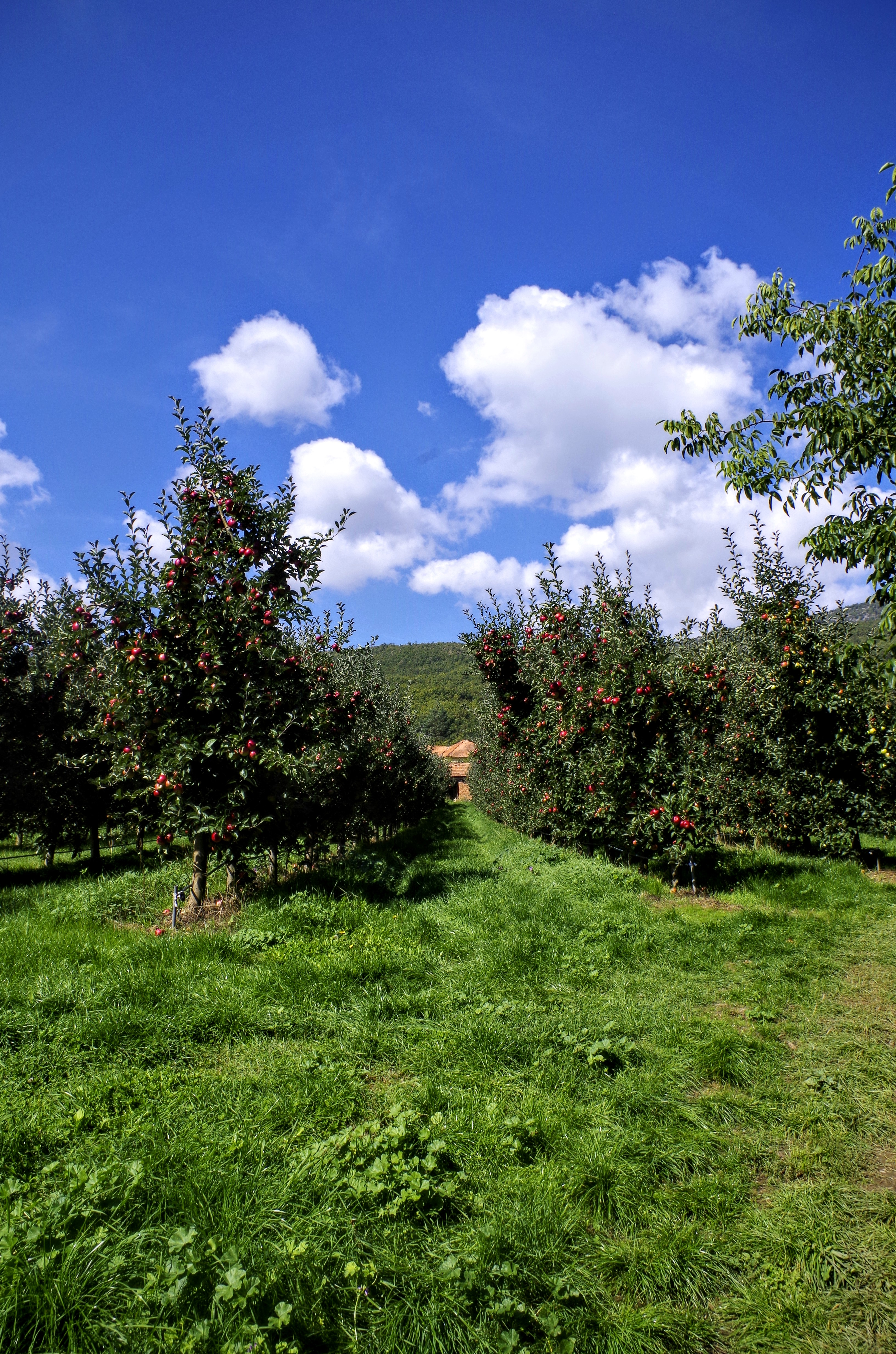 Apples in Prespa Region